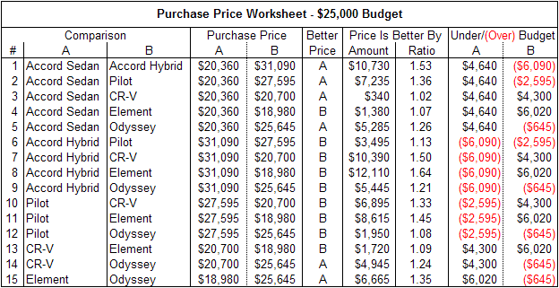 Part of a series of images to illustrate an article on the Analytic Hierarchy Process